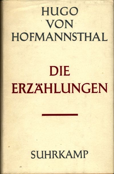 Book cover of Hugo von Hofmannsthal - "Die Erzaelungen" 1949